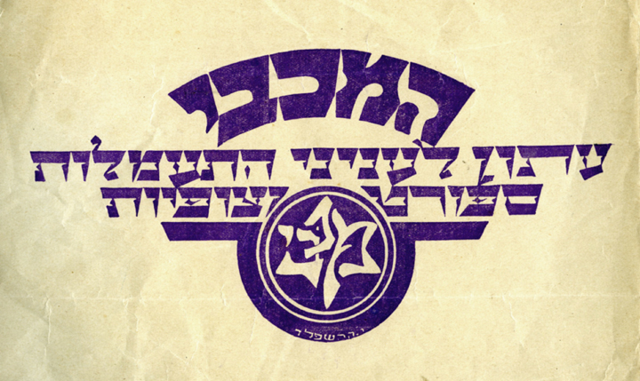 Israel Hirschfeld Israeli, born Russian Empire, Late 19th century–1957 Maccabi World Union Newspaper Logo Undated Print 9.1 x 18 cm Bequest of the artist